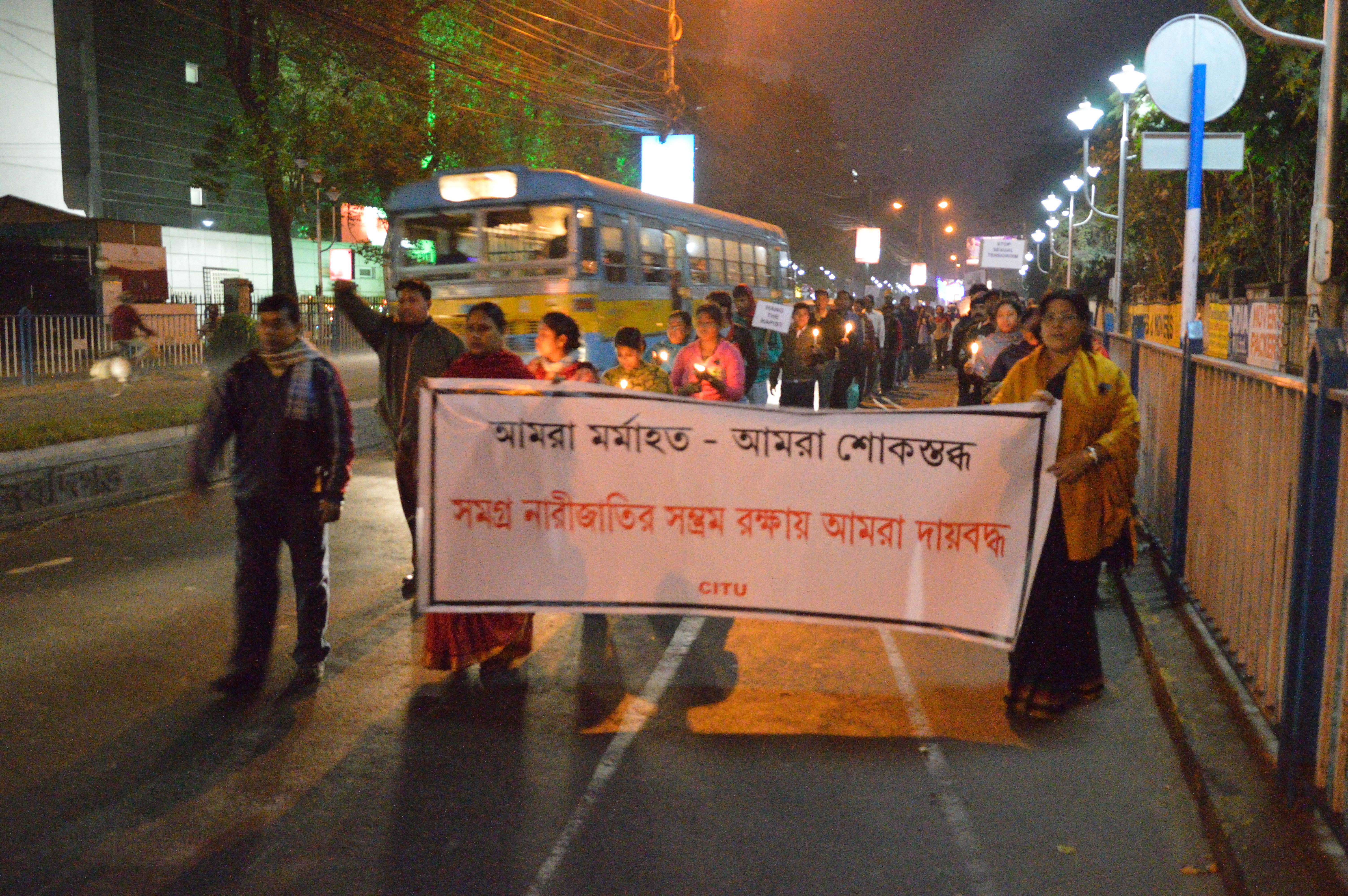 The candlelight rally was held at Sector-V, Salt Lake, Kolkata, against the gang rape occurred in New Delhi on 16th December, 2012 to a 23 year female physiotherapy student and died thirteen days later in Singapore on 29th December, 2012 for brain and gastrointestinal damage from the brutally assault.